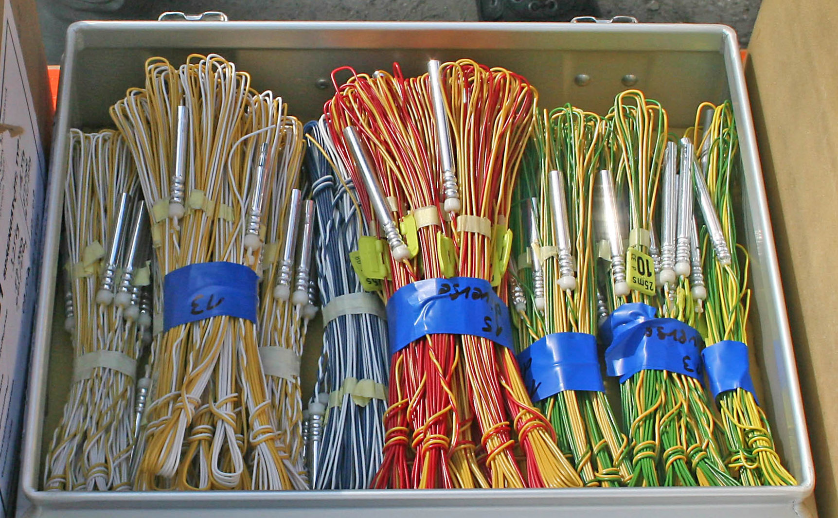 Box with electrical detonators with varying sensitivity and delay time